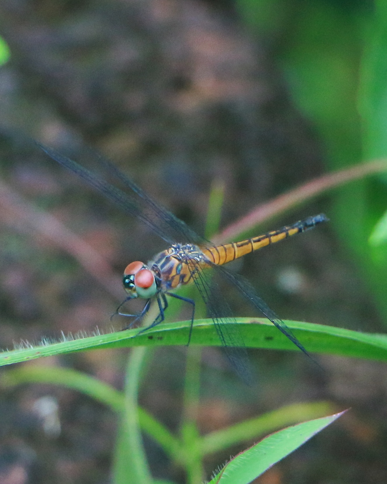 Rufous backed marsh Hawk ,Brachydiplax chalybea,female